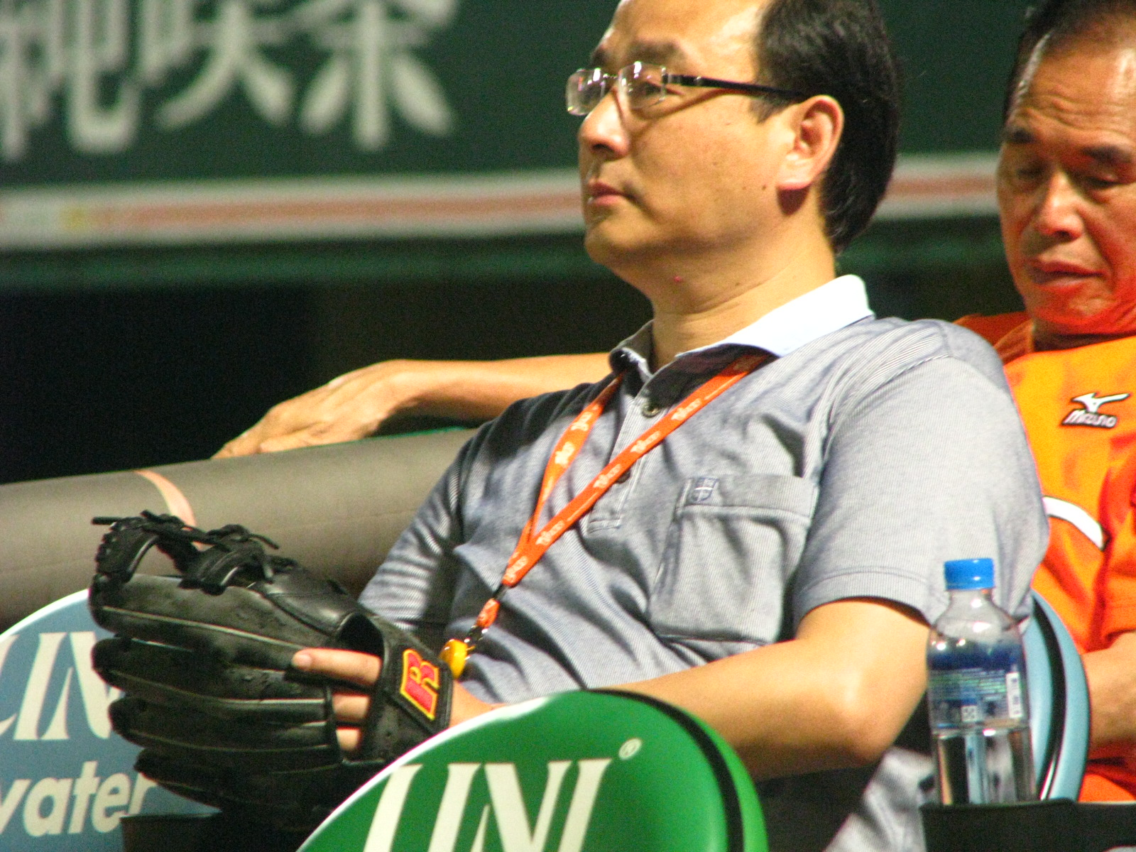 20140717蘇泰安